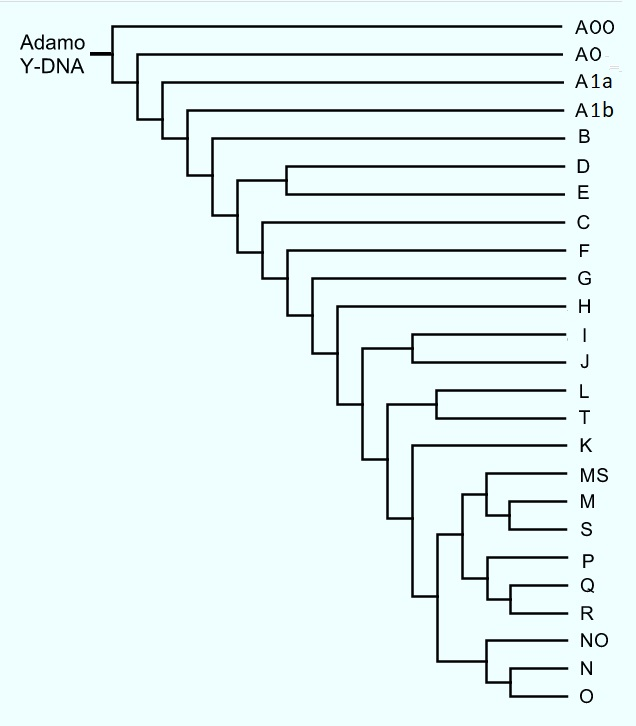 Evolutionary relationship of human Y-chromosome DNA haplogroup